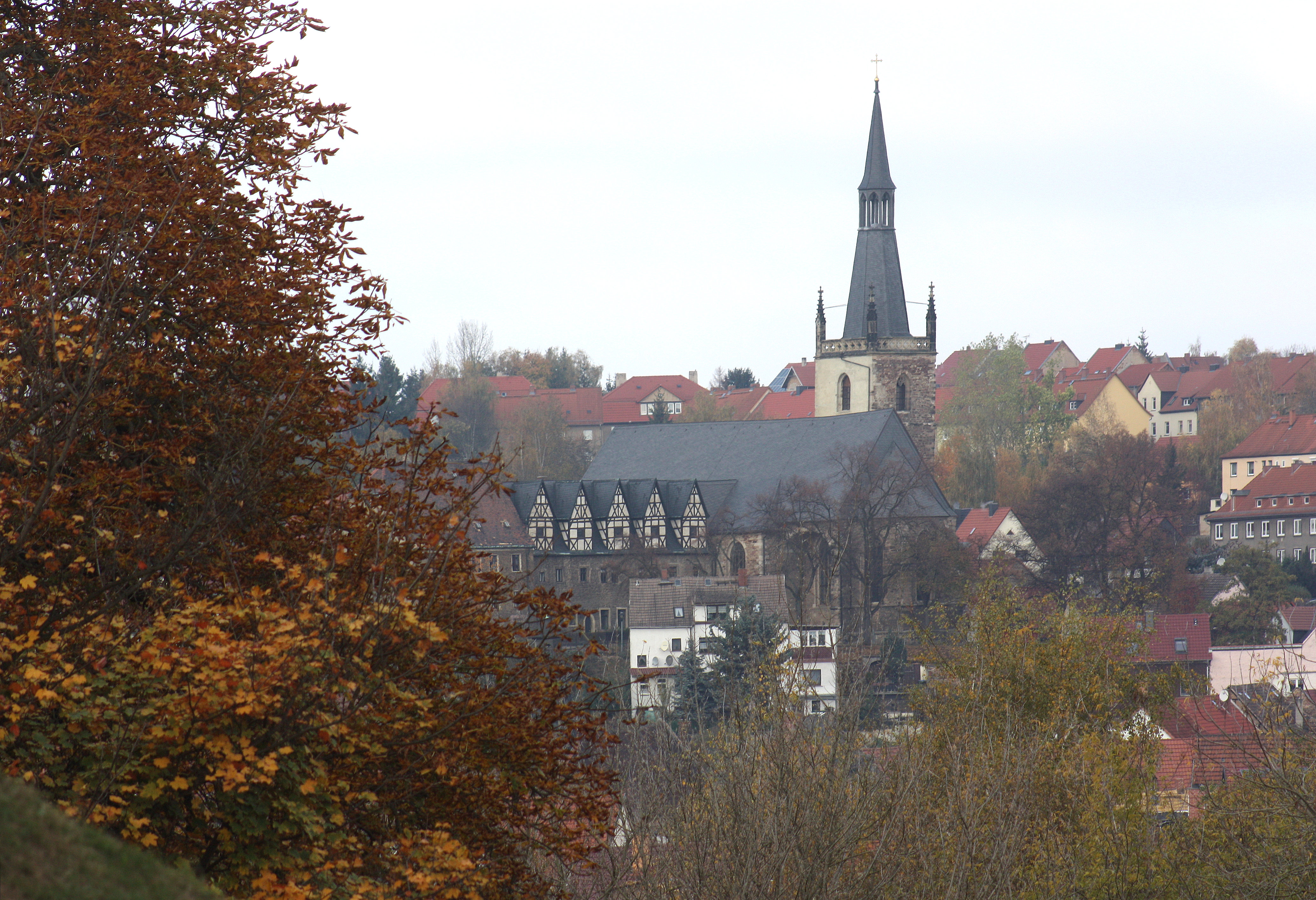 Lutherstadt Eisleben, view from the Siebenhitze to the church St.Annen and to the former Augustin Monastery, telephoto